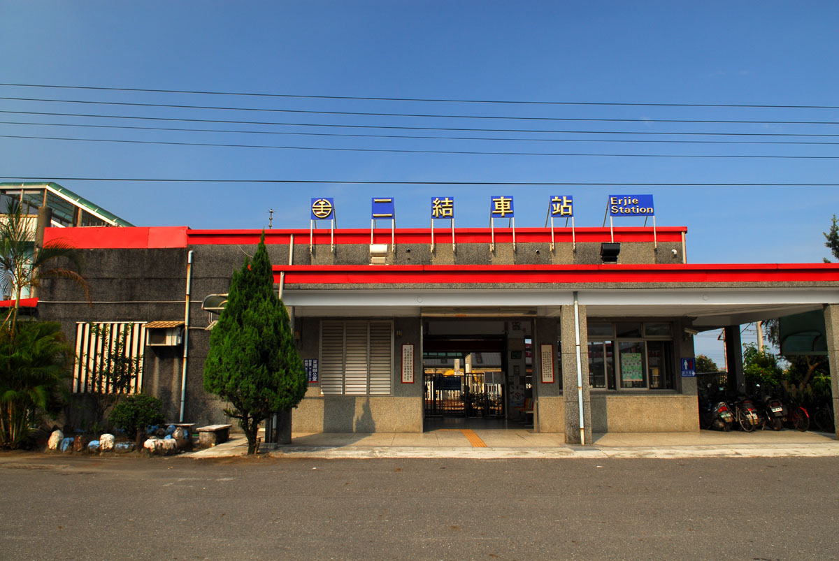 Erjie Station is a small local train station of Yilan Line, part of Taiwan's eastern rail line. It's the major train station of Wujie Township, Yilan County, but has a different station name.